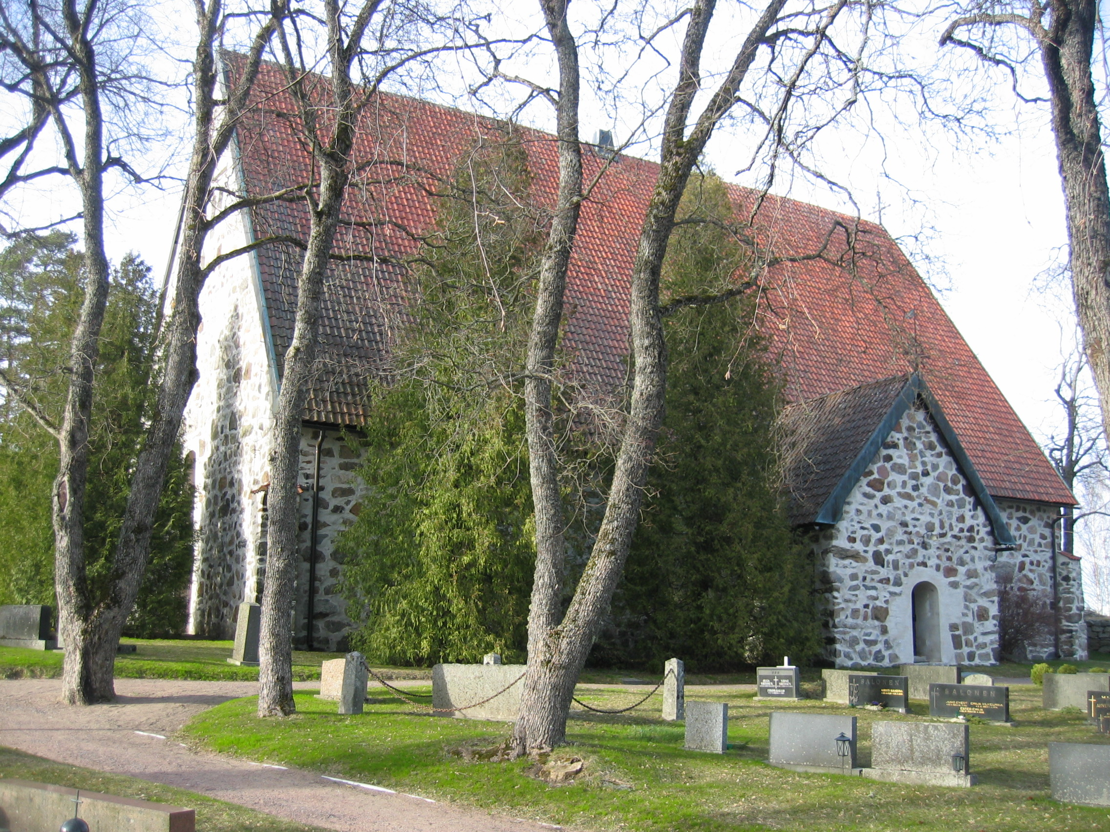 Church of Lemu in Masku, Finland